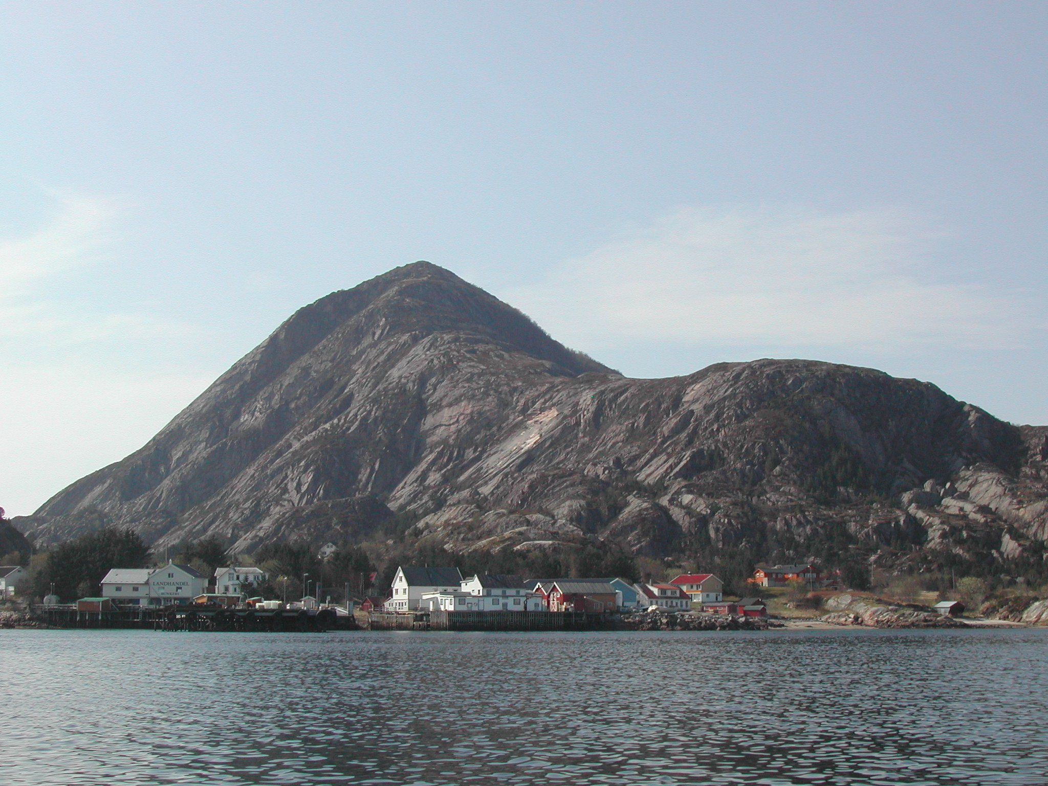 Bolga is a populated island in Meløy municipality, Norway. Its population in 2005 was 141.